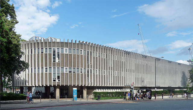 Swiss Cottage Library Geograph-2779962-by-Stephen-Richards